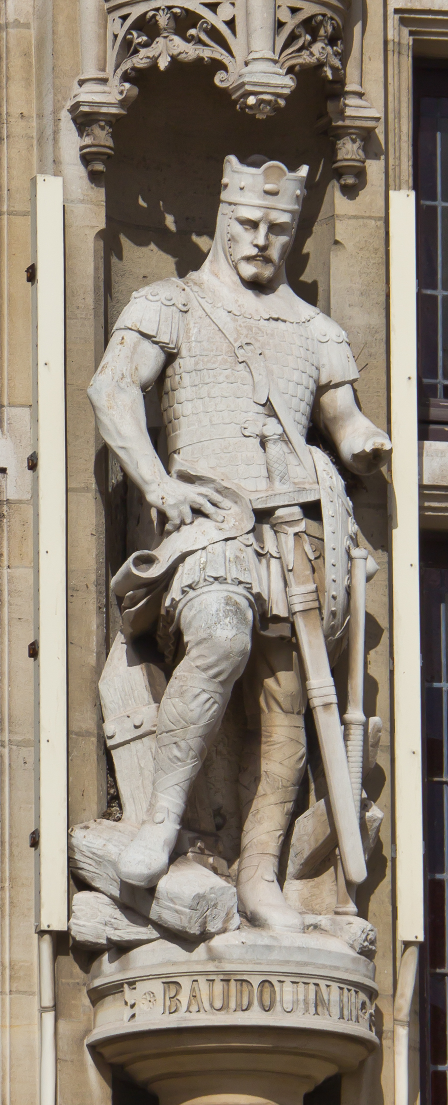 Town hall of Dunkerque - statue of Baudoin III de Flandre